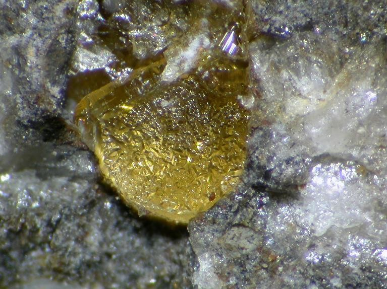 Chabazite Locality: Cheltenham Beach, North Shore City, Auckland, North Island, New Zealand Field of view 5 mm. Specimen and photo Leon Hupperichs.